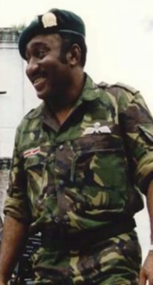 Arthy Gorré, Surinamese military officer